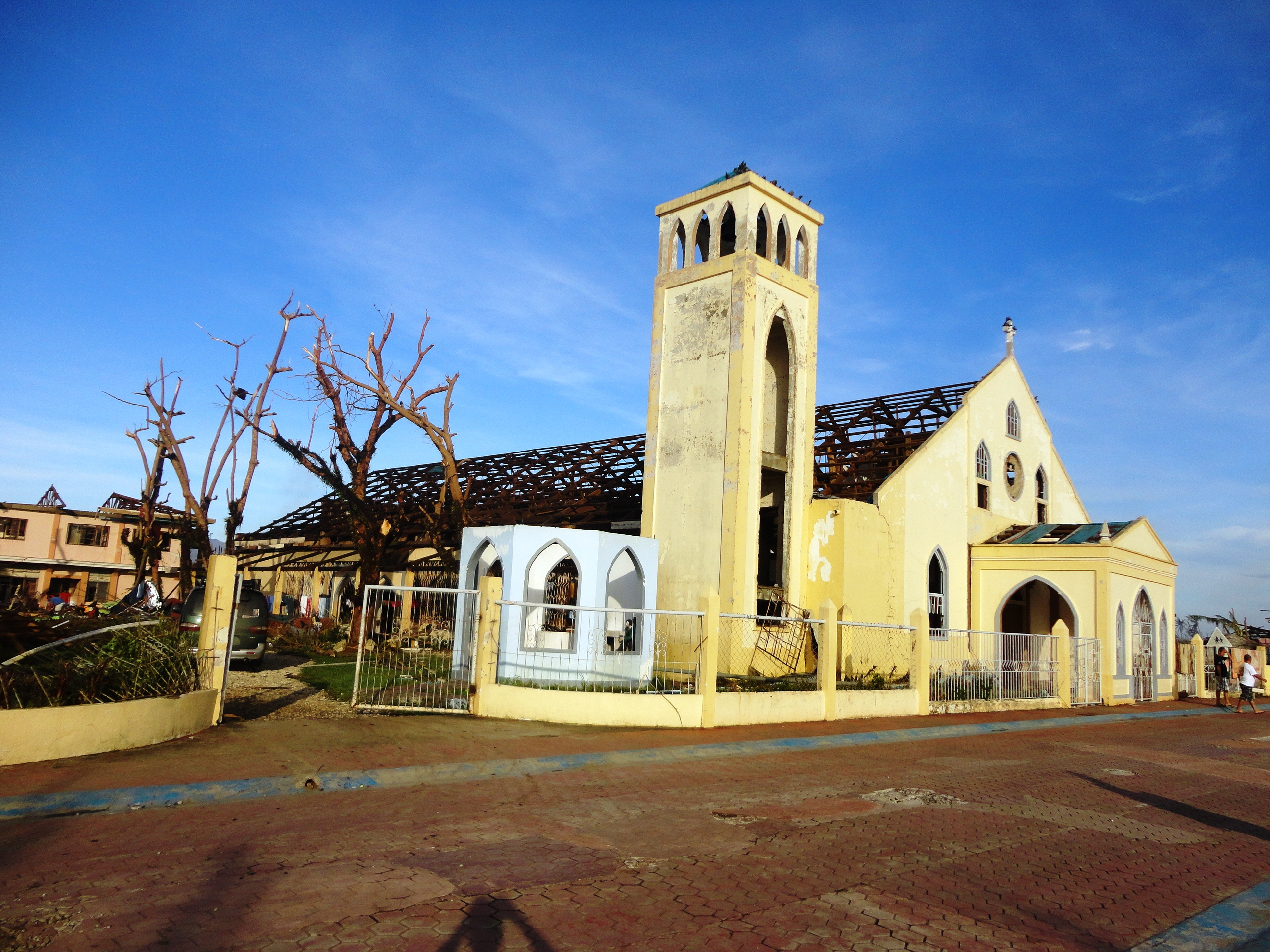 Orig. Flickr desc: St. James Parish Church. Notice the absence of the roof, the glass windows and the crucifix above the church bell tower.